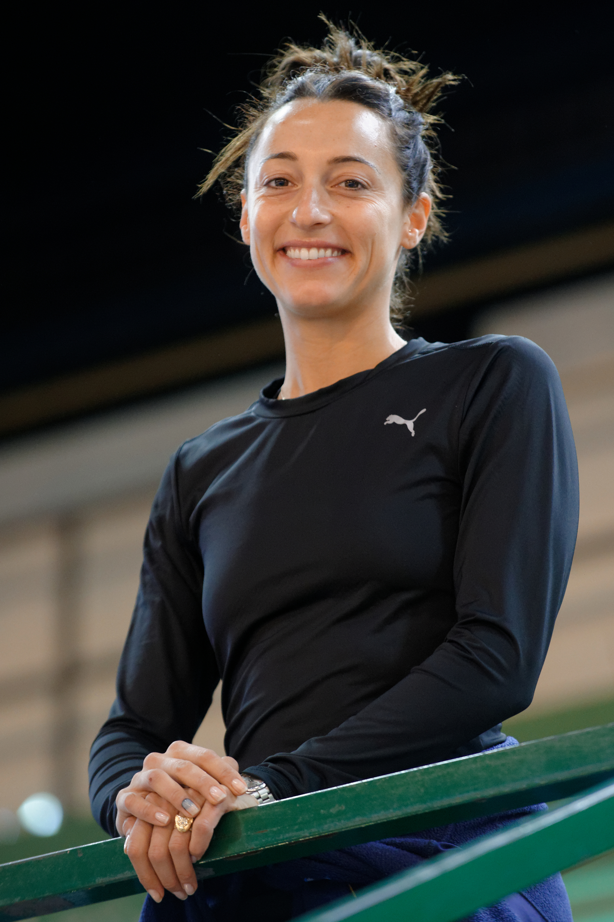 Italy's Elisa Di Francisca at the Saint-Maur Women's Foil World Cup.